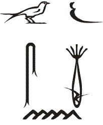 black ink inscription of a person alled "wer-maa Wadjesen"; redrawing of Lacau-Lauer´s P.D., volume V, page 12, obj. no. 20